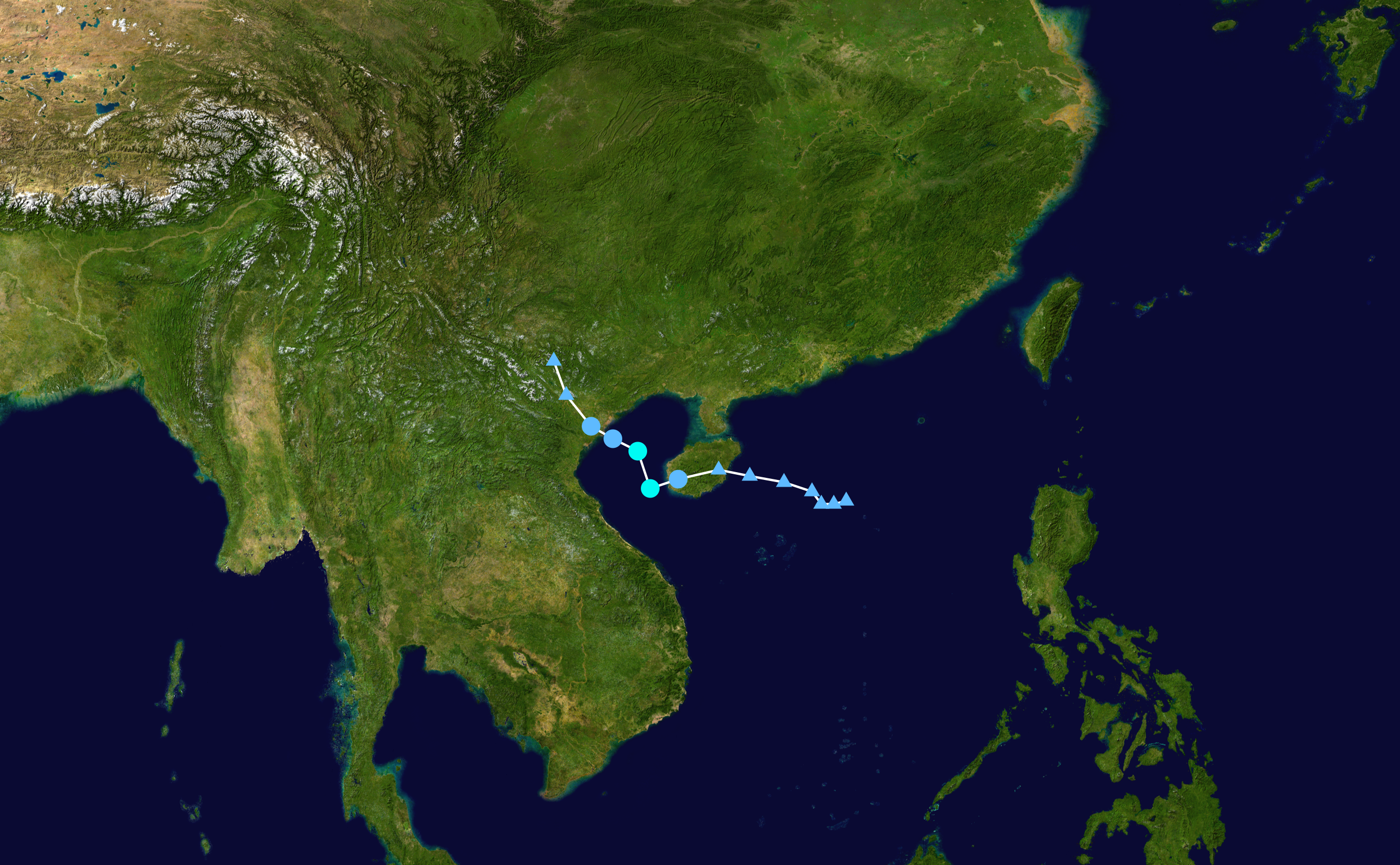 Track map of Tropical Storm Mun of the 2019 Pacific typhoon season. The points show the location of the storm at 6-hour intervals. The colour represents the storm's maximum sustained wind speeds as classified in the Saffir–Simpson scale (see below), and the shape of the data points represent the nature of the storm, according to the legend below. Saffir–Simpson scale Tropical depression≤38 mph≤62 km/h Category 3111–129 mph178–208 km/h Tropical storm39–73 mph63–118 km/h Category 4130–156 mph209–251 km/h Category 174–95 mph119–153 km/h Category 5≥157 mph≥252 km/h Category 296–110 mph154–177 km/h Unknown Storm type Tropical cyclone Subtropical cyclone Extratropical cyclone / Remnant low / Tropical disturbance / Monsoon depression